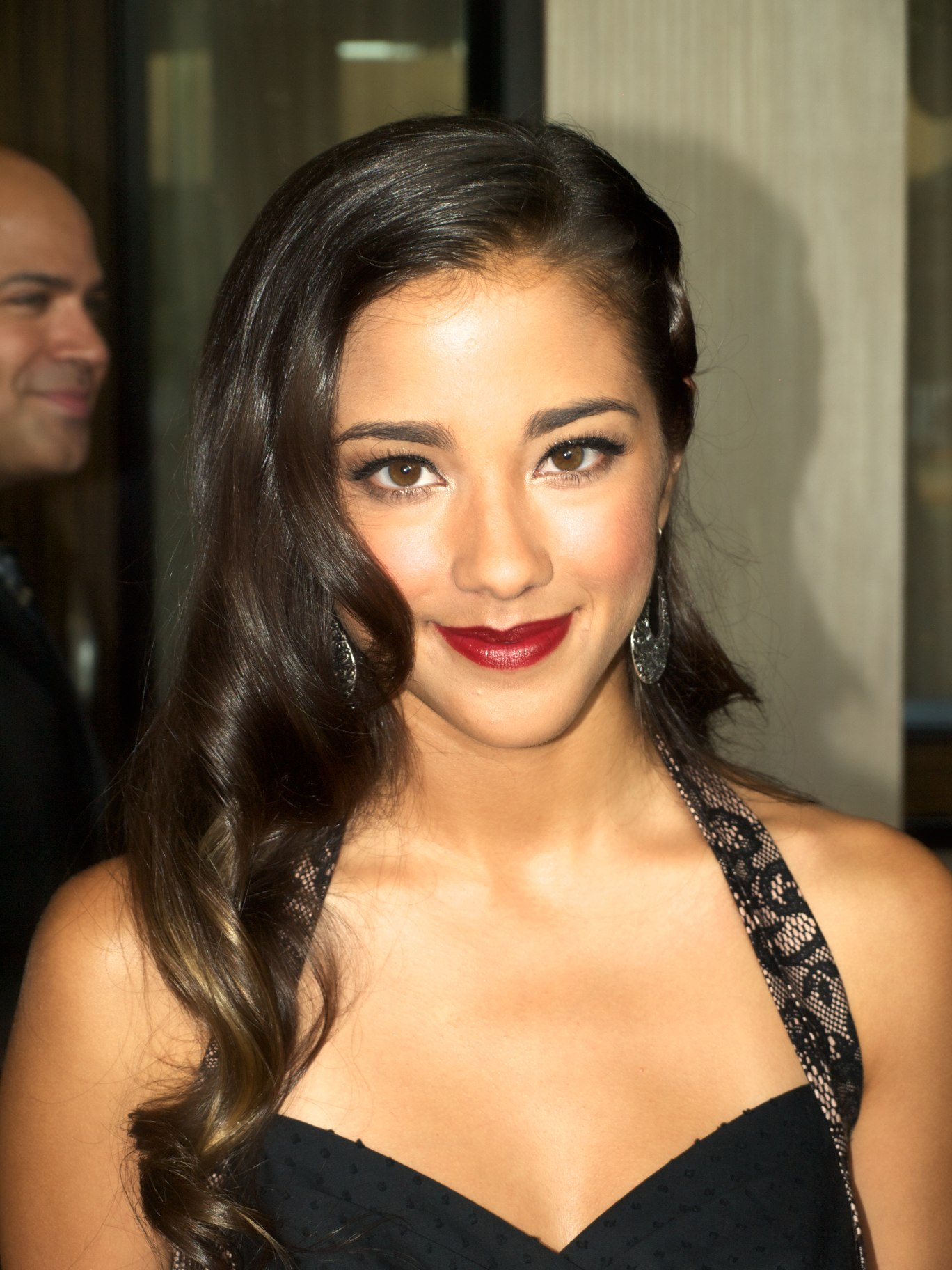 Seychelle Gabriel at the 2012 Imagen Foundation Awards